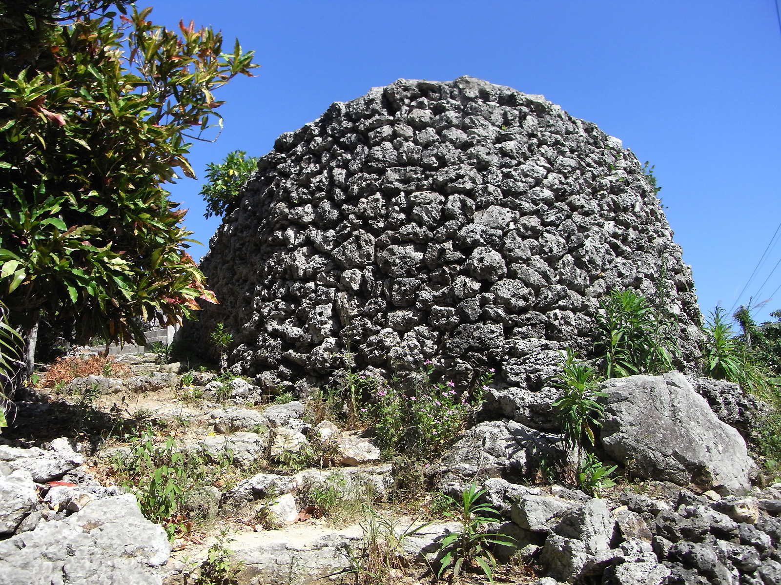 Kusukumui, Taketomi Island, Okinawa, Japan